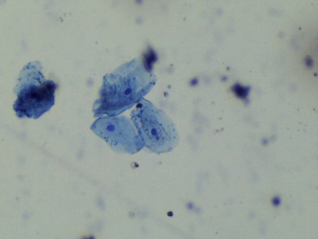 a group of 4 cells of the human cheek, with a prominent nucleus, surrounded by cytoplasm and folded cell membranes. Аҧсшәа: మానవుని బుగ్గ కణాలు మిథిలిన్ బ్లూ తో రంజనం చేయబడిన వి మద్యలో స్పష్టంగాఉన్న కేంద్రకం , చుట్టూ జీవపదార్ధాన్ని ఆవరించి కణత్వచం ఉన్నాయి